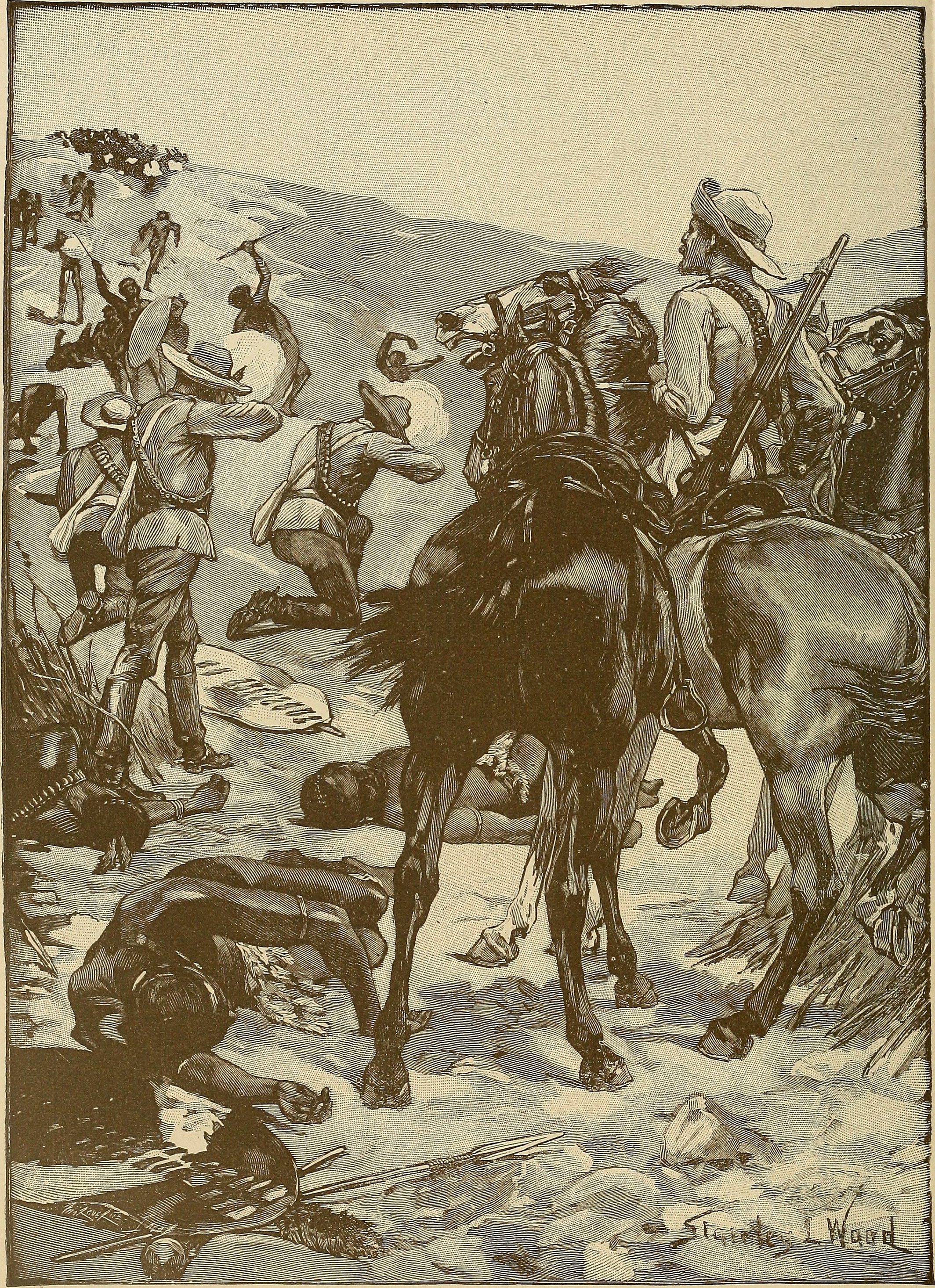 Battle between English and Zulus, South Africa, 1879 Title: Adventure--travel--exploration Year: 1909 (1900s) Authors: Unger, Frederic William, 1875- (from old catalog) Subjects: Roosevelt, Theodore, 1858-1919; Zoology Publisher: (Philadelphia, The John C. Winston co. ) Text Appearing Before Image: ' Text Appearing After Image: BATTLE BETWEEN THE ENGLISH AND THE ZULUS, SOUTH AFRICA. iS7g